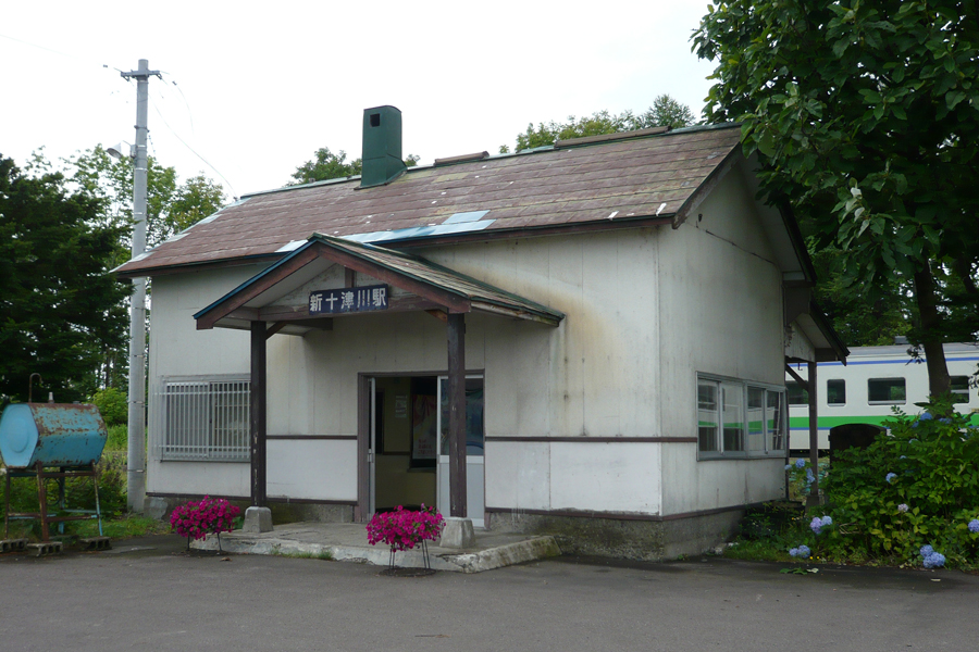 Shintotsukawa Station in Sasshou Line, Japan